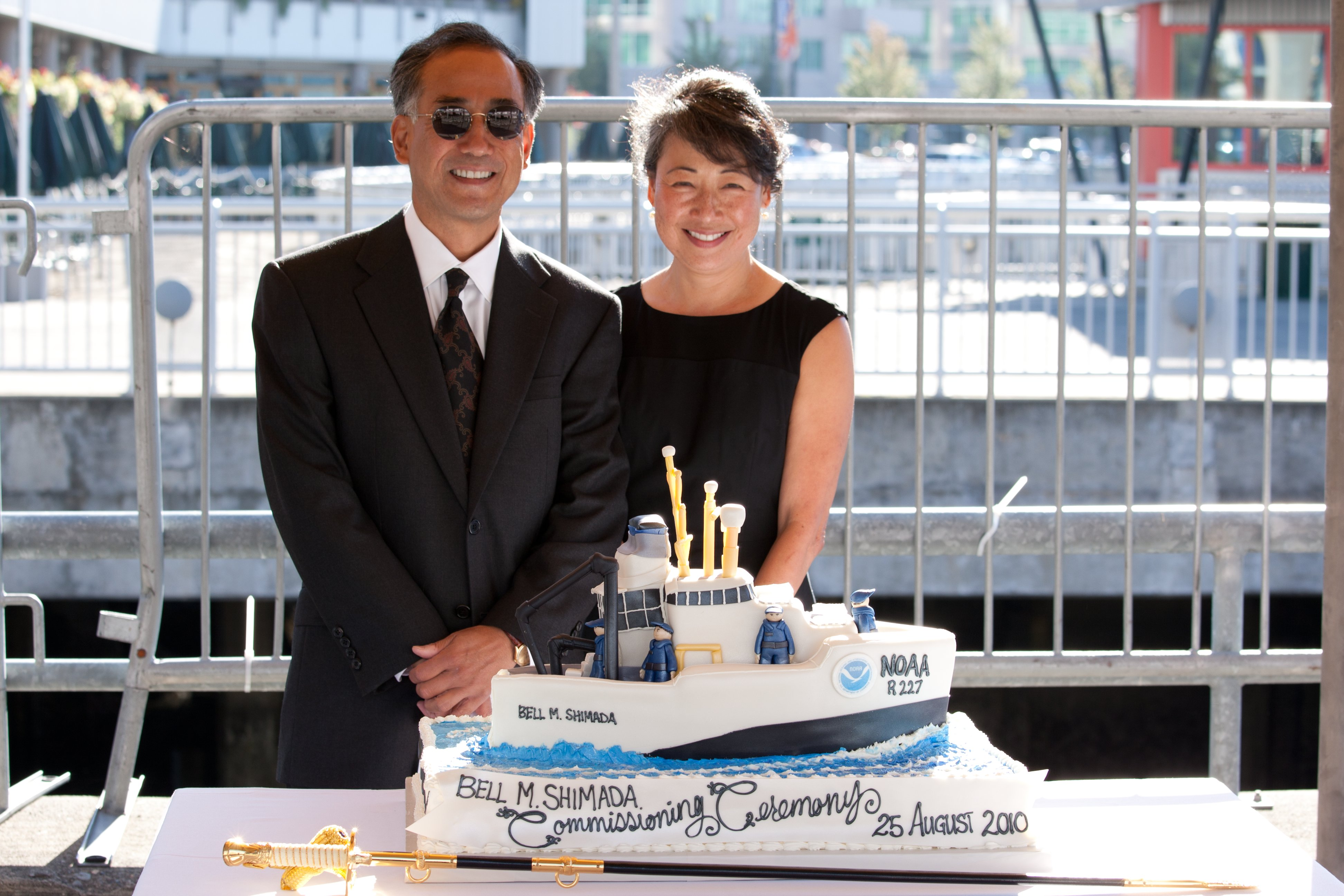 Allen and Julie Shimada, at the commissioning ceremony for the ship named for their father, the NOAA Ship BELL M. SHIMADA.